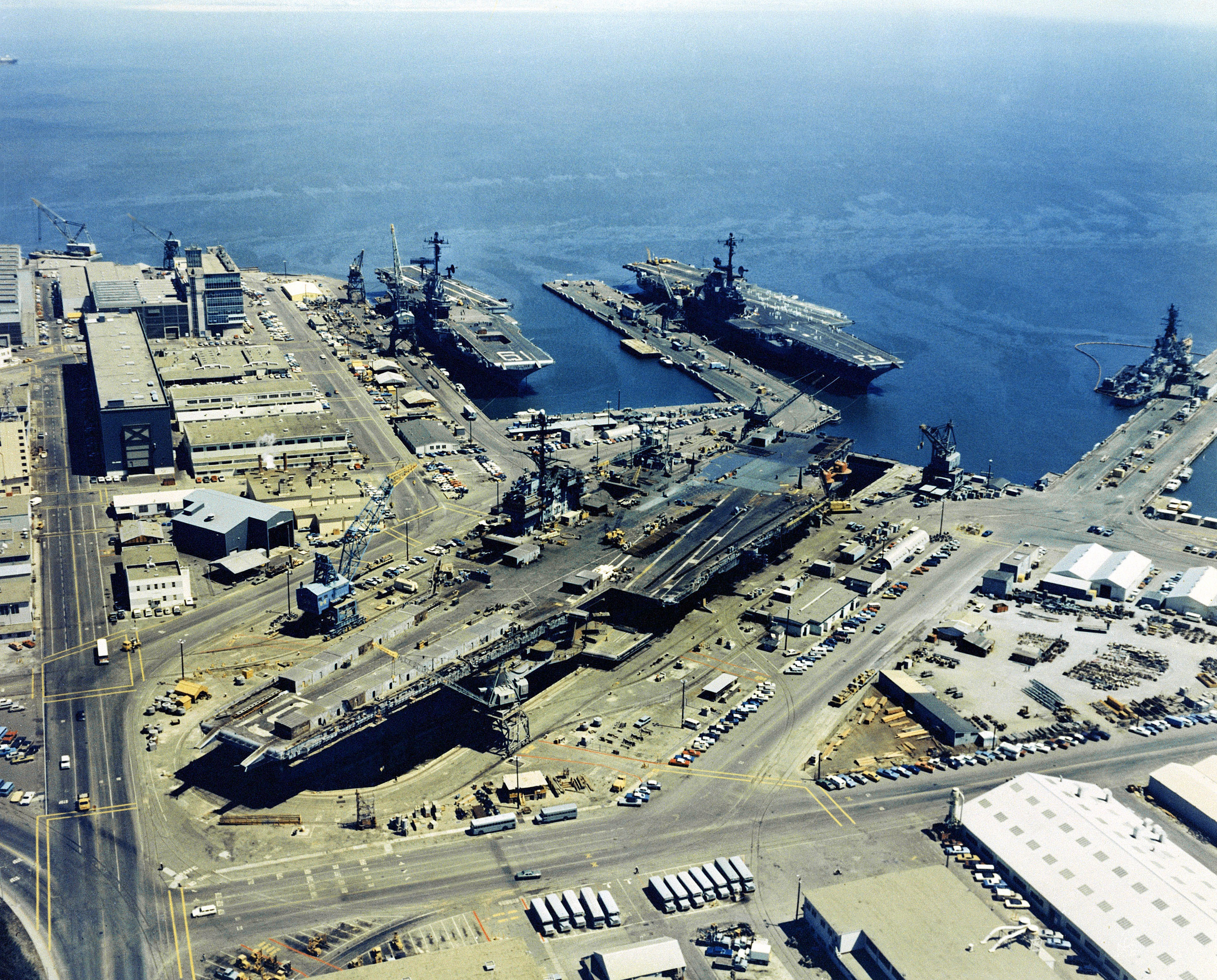 An aerial view of Hunter's Point Naval Shipyard, San Francisco, California (USA), with three docked aircraft carriers on 25 August 1971. The carriers are the USS Ranger (CVA-61) (in dry dock), USS Coral Sea (CVA-43), and the USS Hancock (CVA-19) (left).